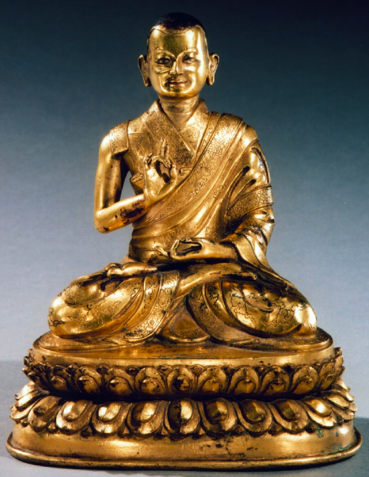 Drokmi Sakya Yeshe (b.992 - d.1072) - Tibetan translator